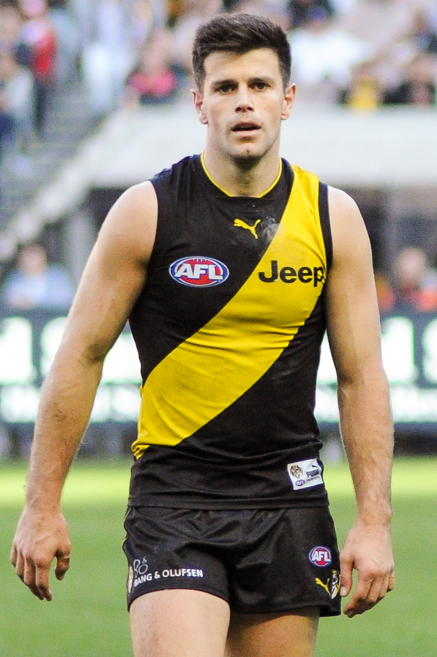 Trent Cotchin during the AFL round thirteen match between Richmond and Sydney on 17 June 2017 at the Melbourne Cricket Ground in Melbourne, Victoria.